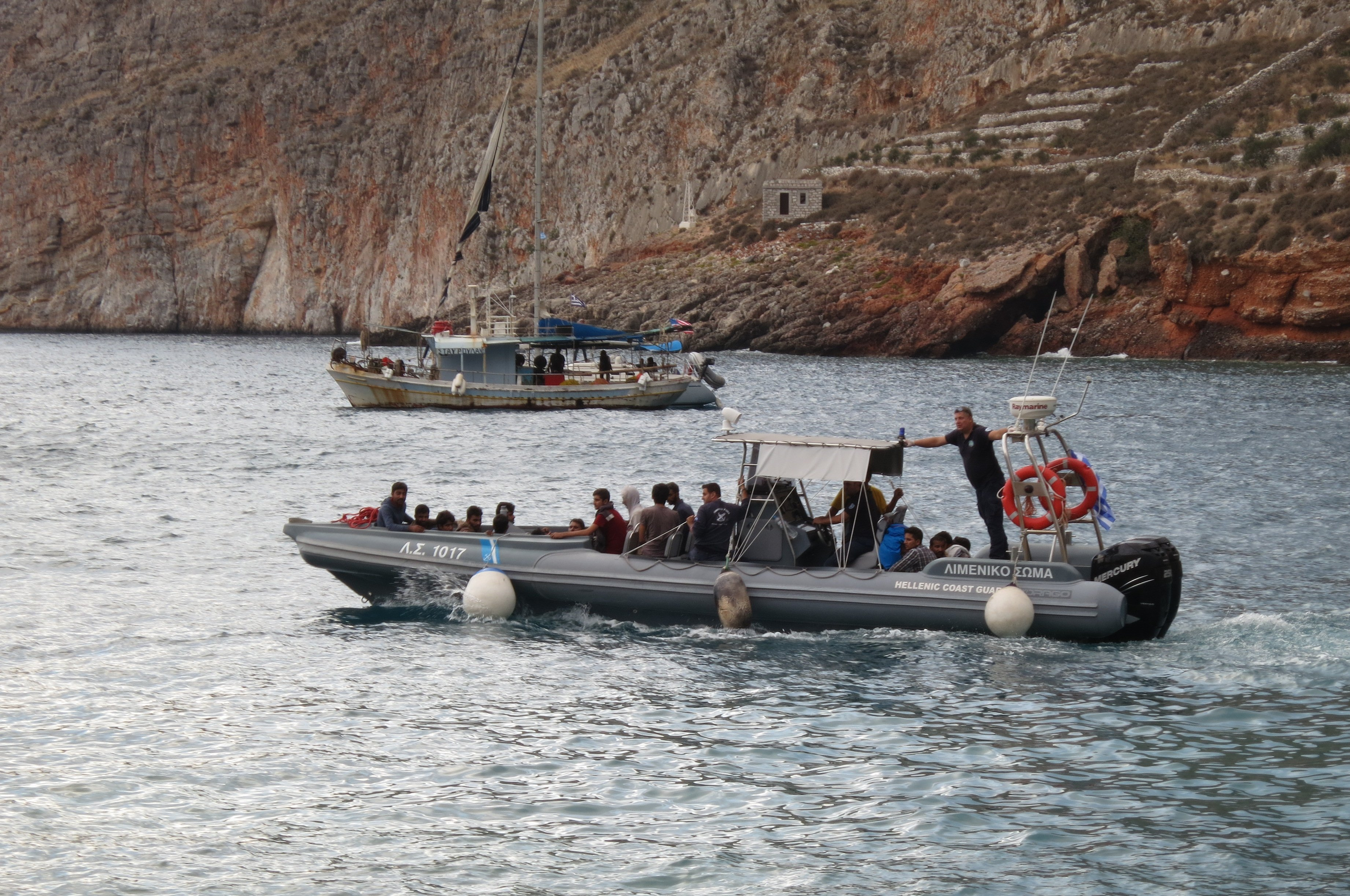 Refugees saved by the greek coast guard from a damaged sailing yacht with US-flag in the harbour of Gerolimenas, Mani.